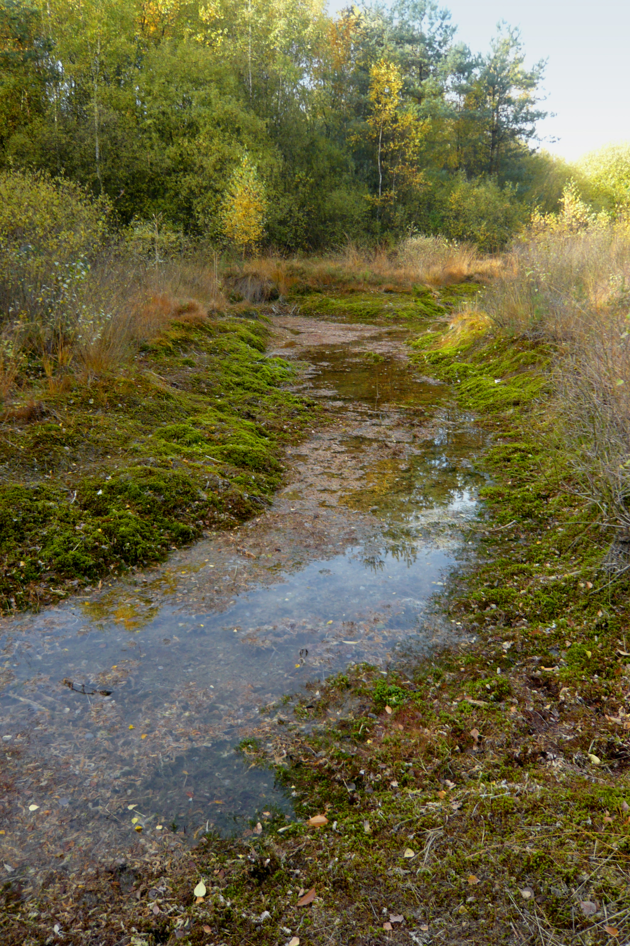 Source of Ölbach in Augustdorf, Germany